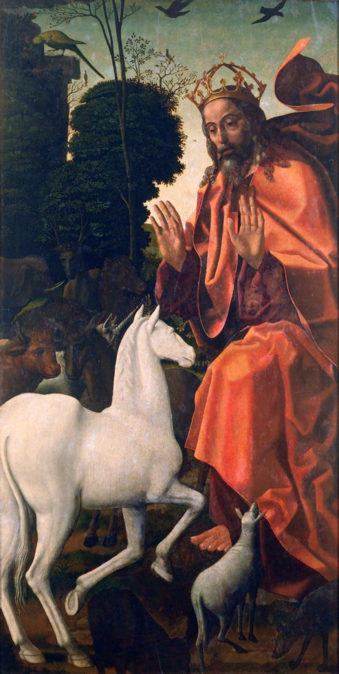 The Creation of the Animals (c. 1506-11), by Grão Vasco, part of the polyptych of the High Chapel of the Lamego Cathedral.